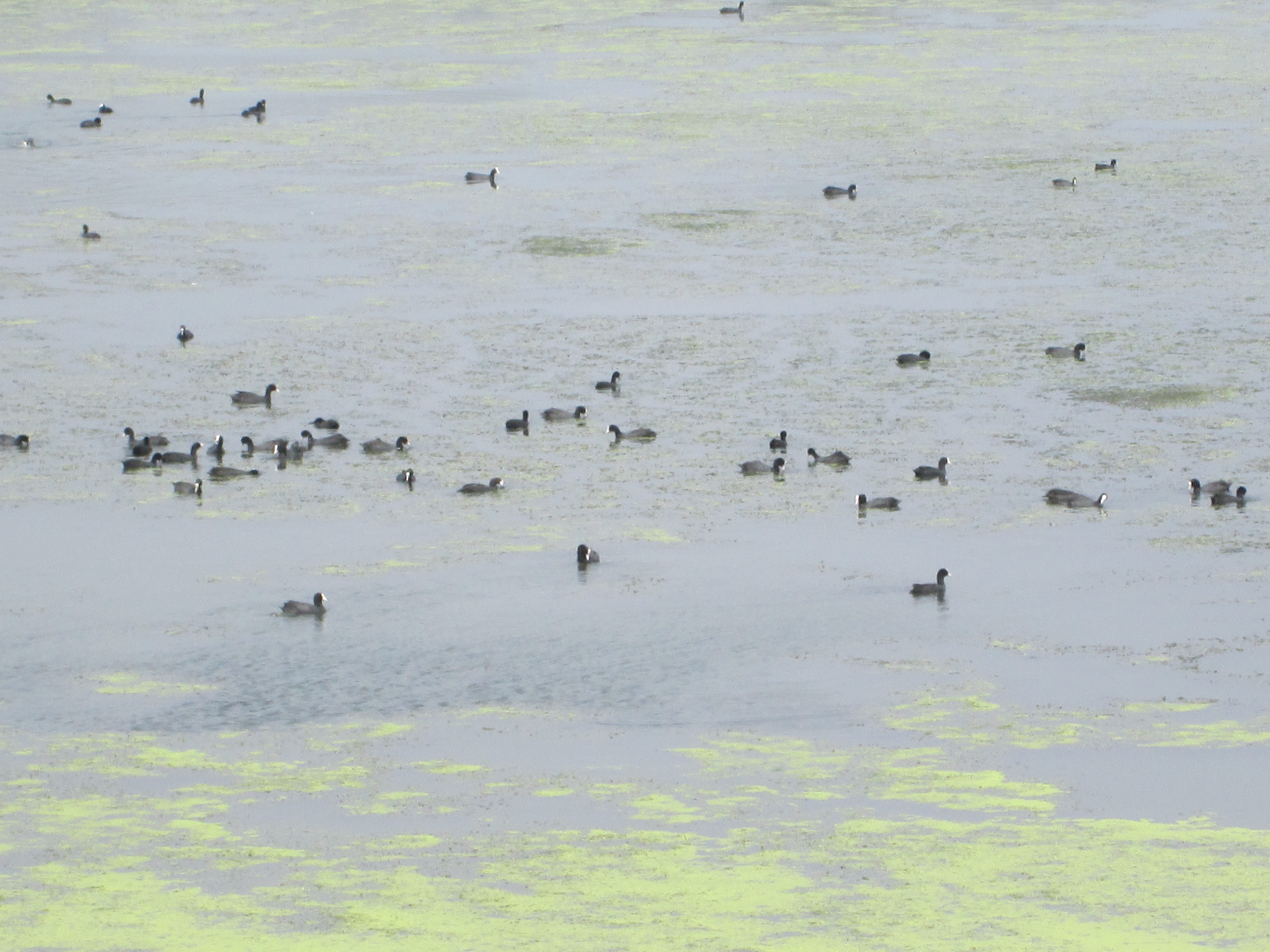 The huge group of birds seen swimming and playing in the pond.